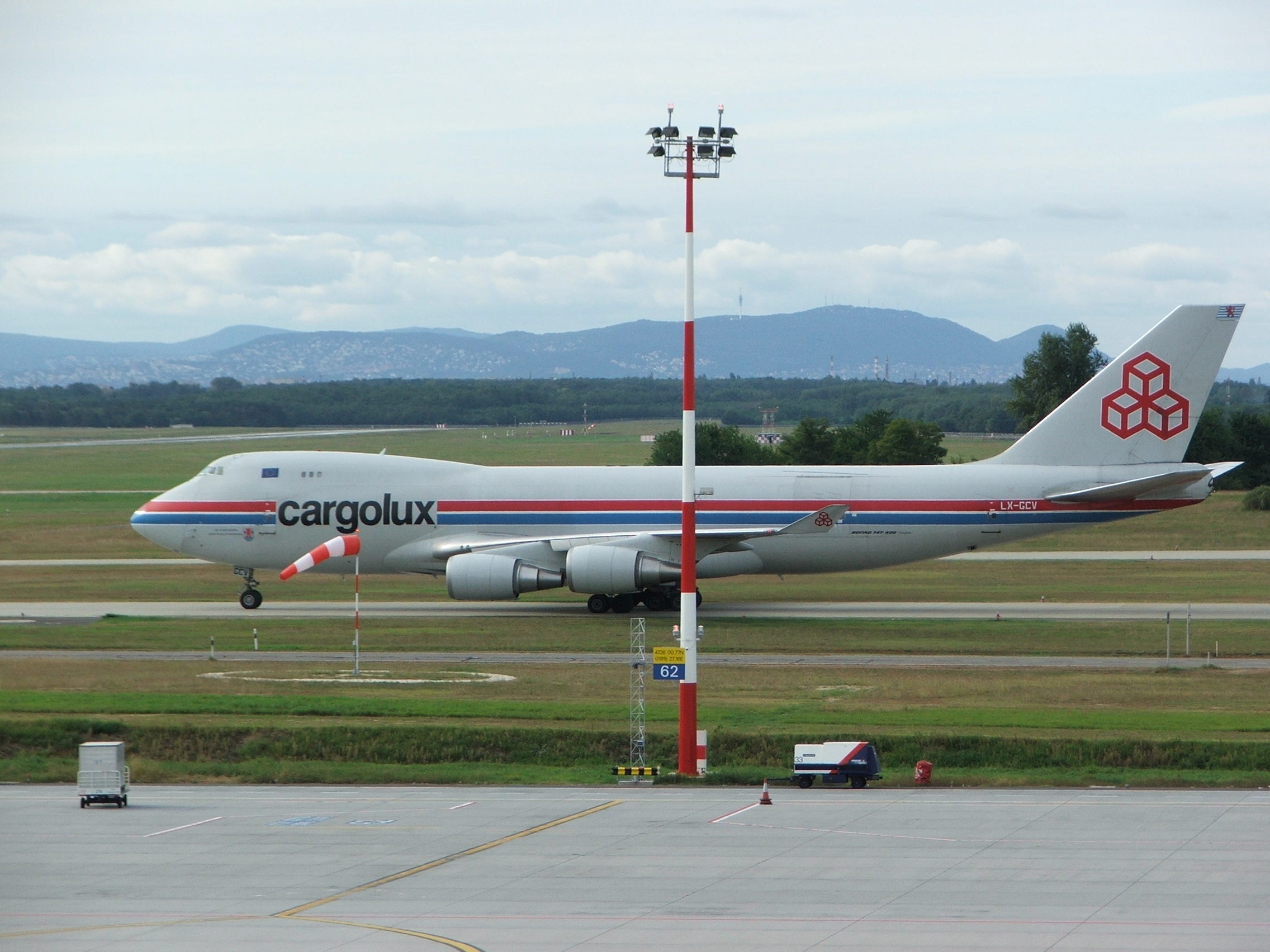 Cargolux Boeing 747-400F LX-GCV at LHBP (Ferihegy, Budapest, Hungary) Photo: József Süveg (2005)